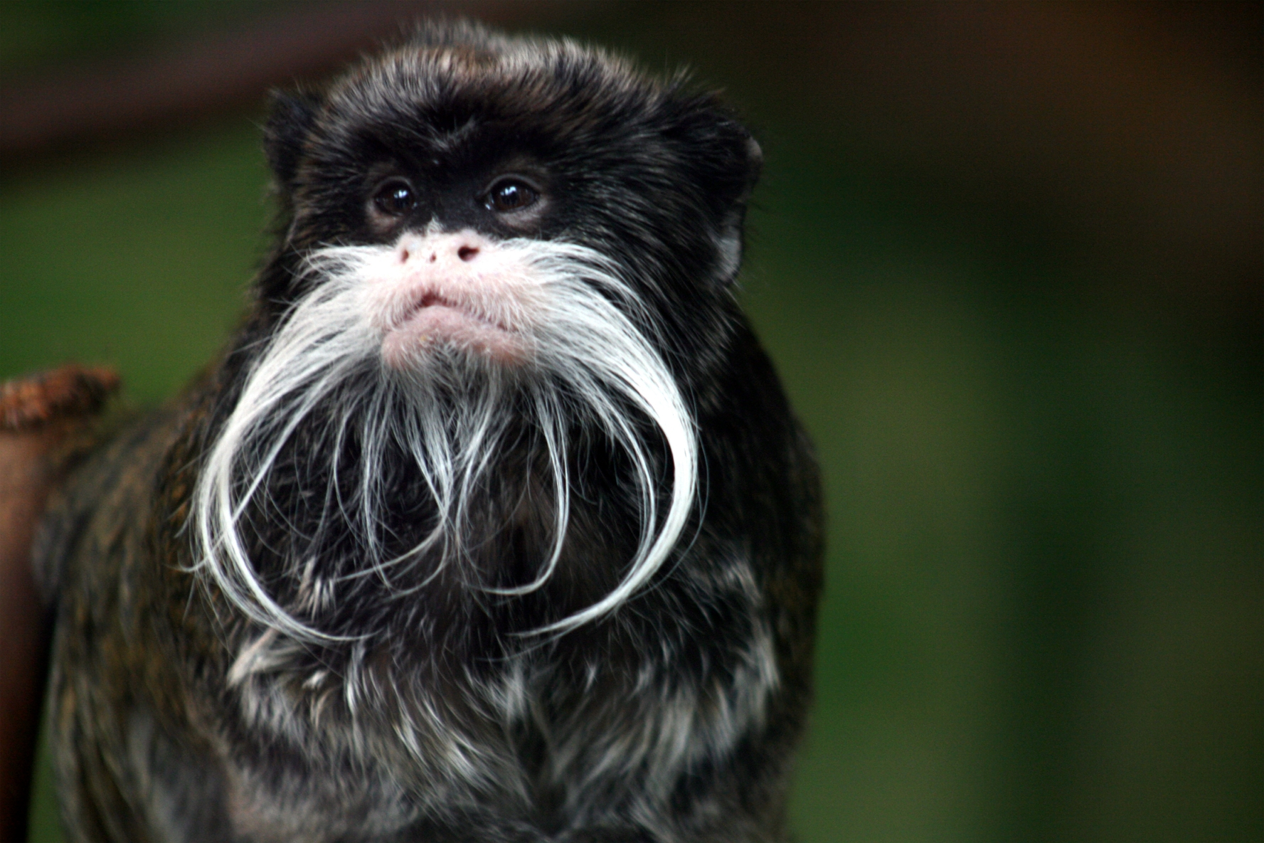 Emperor Tamarin